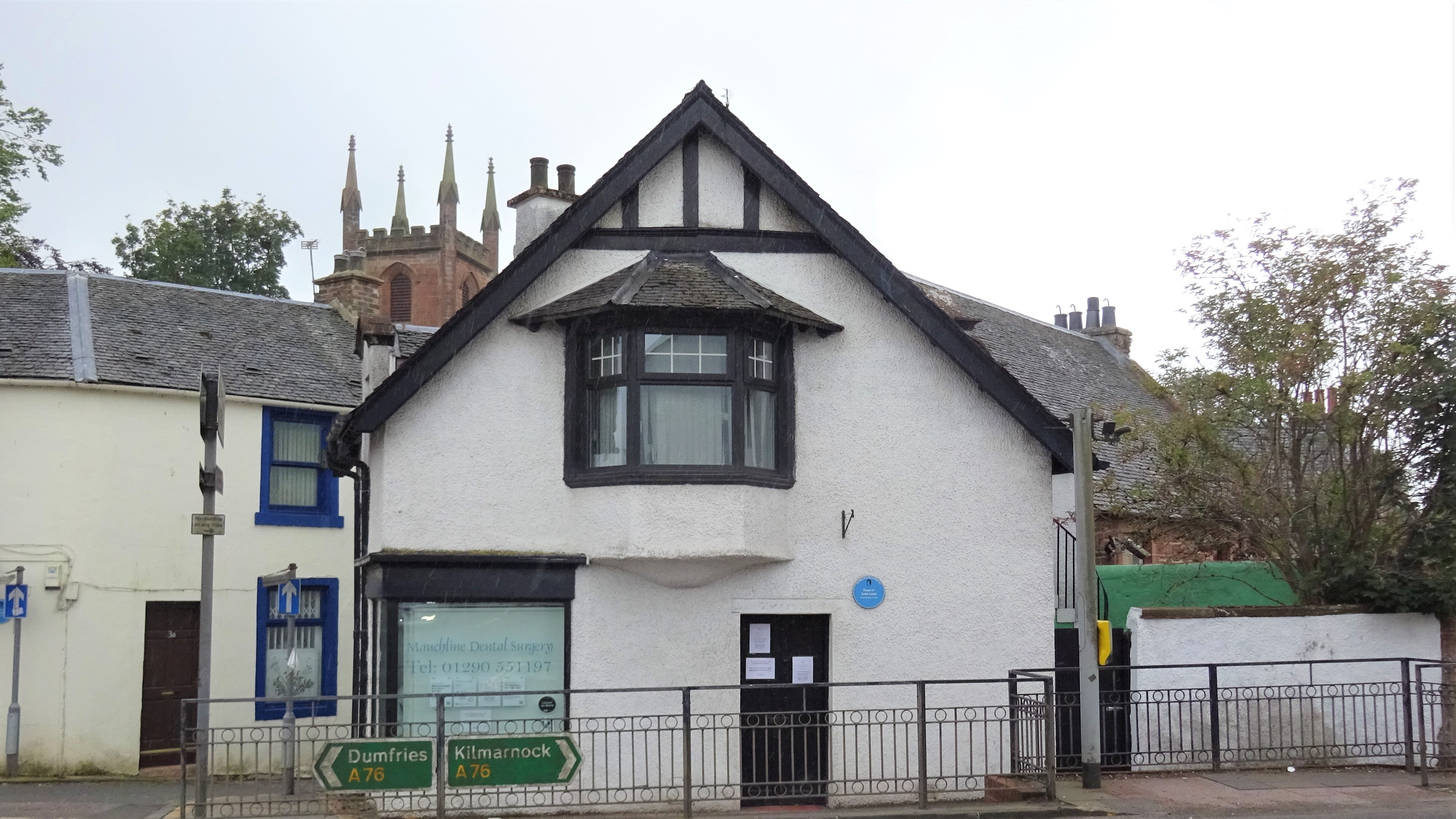 James Lamie's House, Mauchline, East Ayrshire. He was the step-father of James Smith, a draper and close friend of Robert Burns.